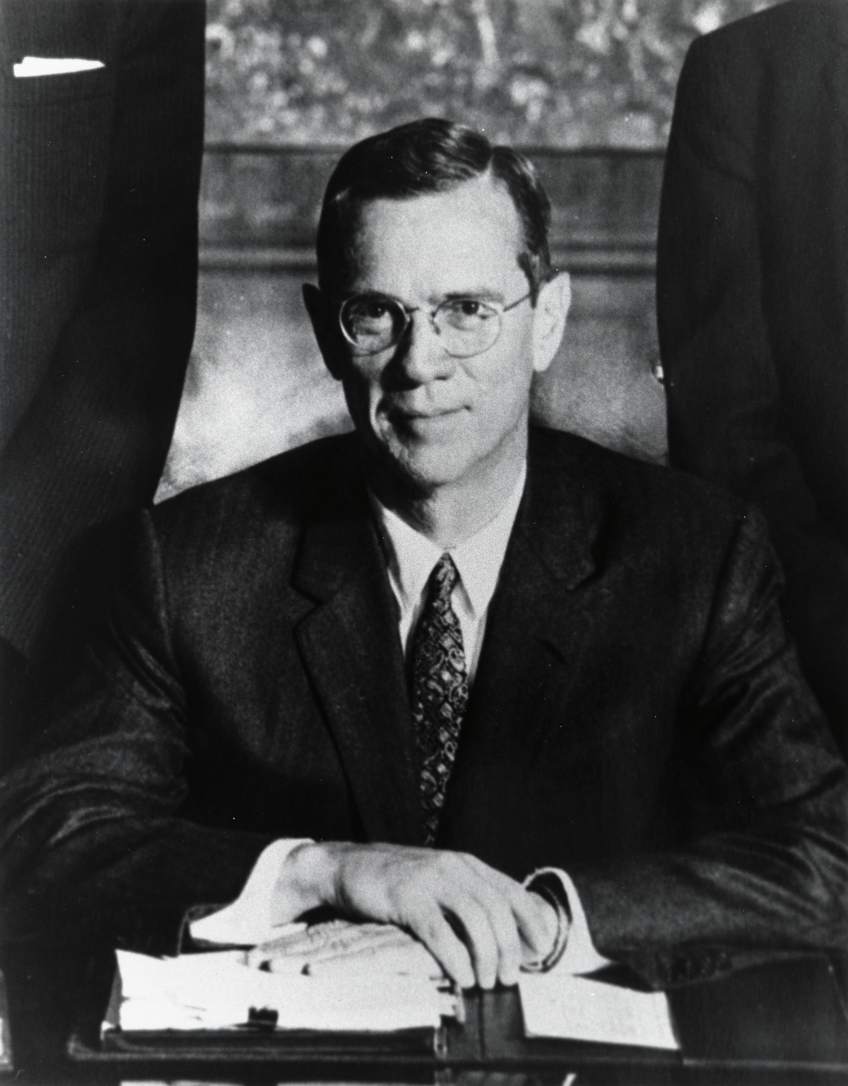 Chairman William McChesney Martin, Jr. (Served from April 2, 1951--January 31, 1970)